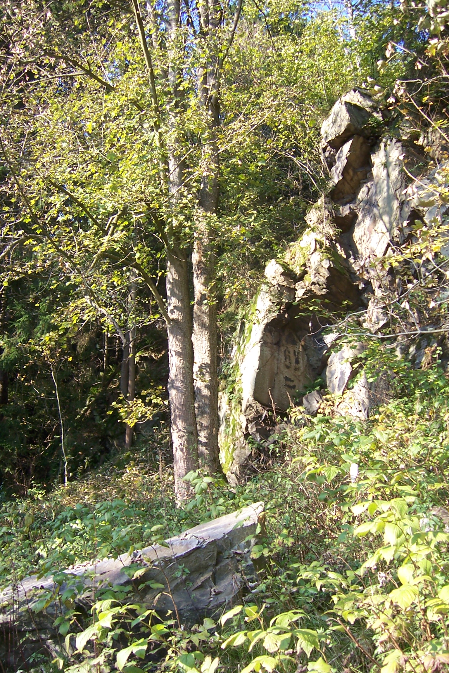 Nature reserve Zaječí skok in Jihlava District, Czech Republic